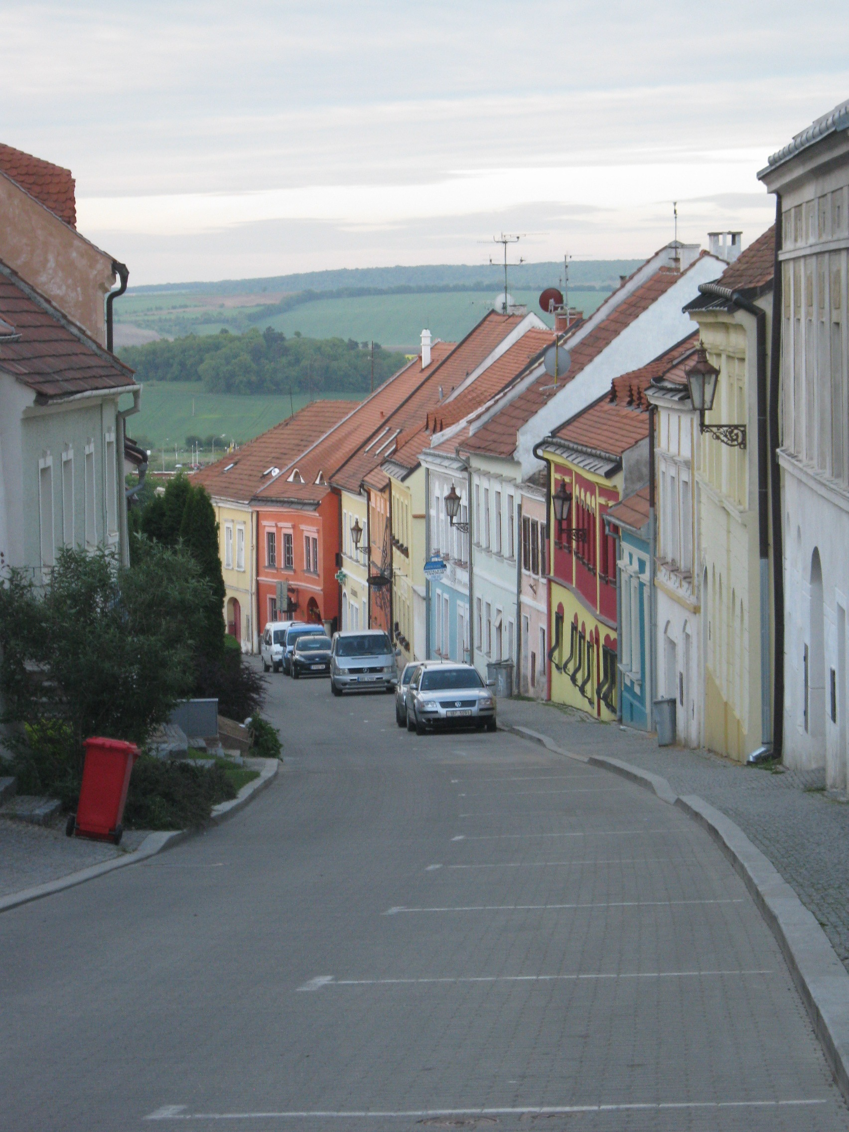 Views from Mikulov Castle